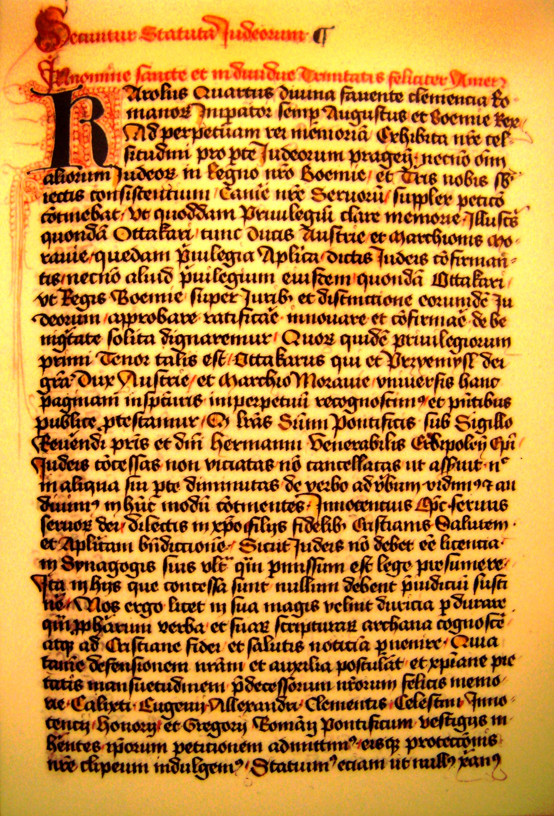 Statuta judaeorum